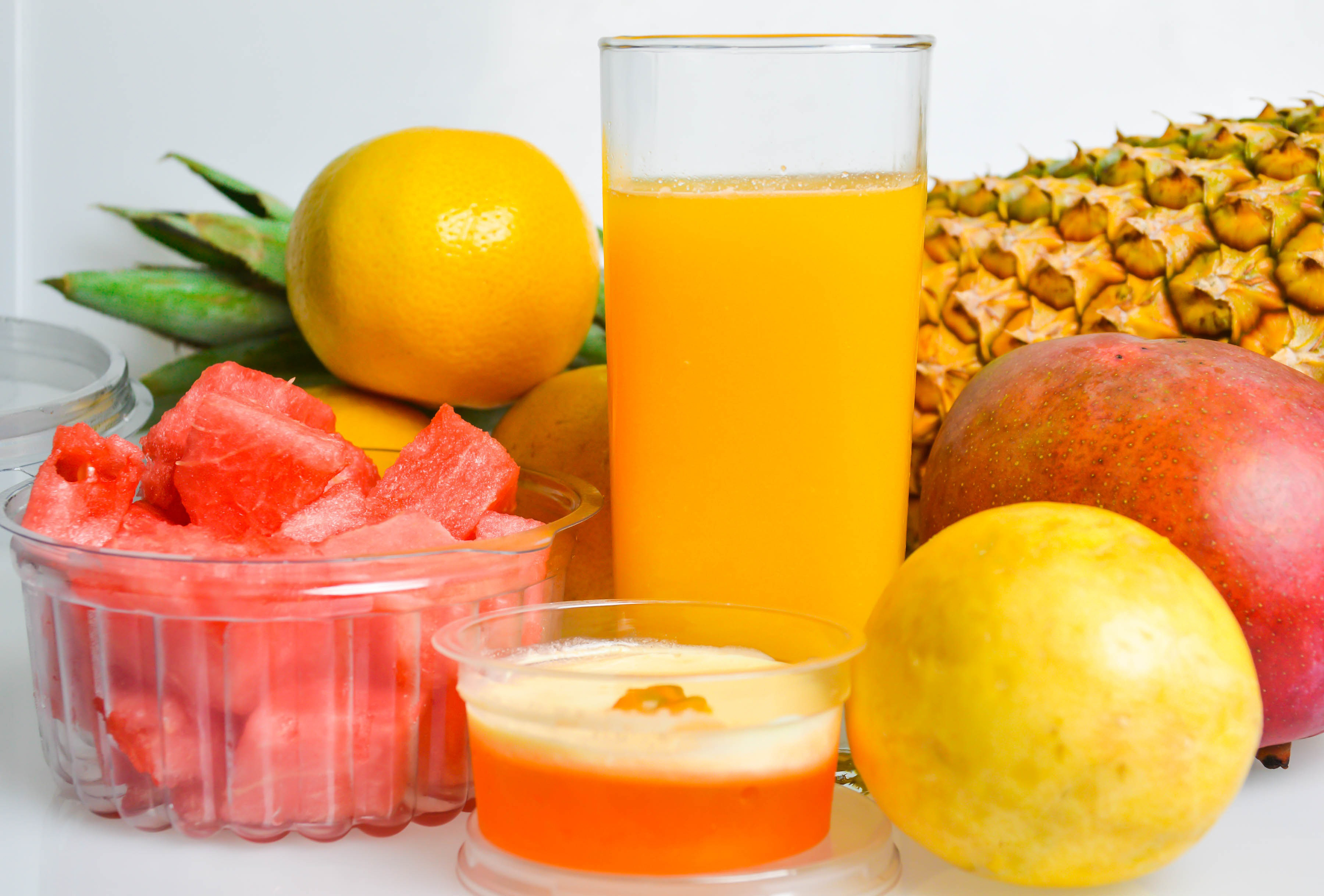 Various fruits mixed into a glass of pineapple juice